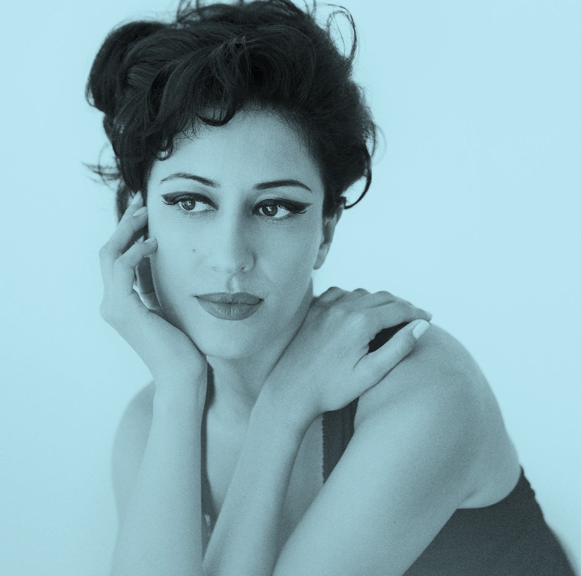 Ana Moura